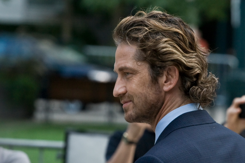 At the premiere of "Machine Gun Preacher", directed by Marc Forster, during the Toronto International Film Festival, 2011.